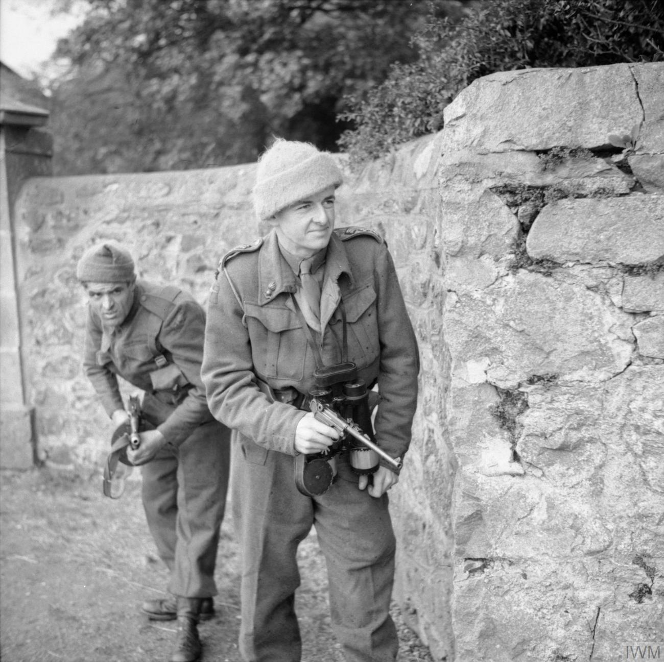 Captain Gerald C S Montanaro of 101 Troop, Special Service Brigade, leads one of his men during combined operations training in the presence of the King at Inverary in Scotland, 9 October 1941. The officer is carrying a Luger pistol with drum magazine.